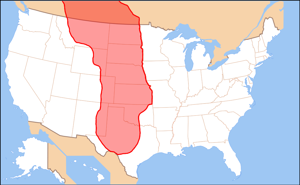 A map of the Great Plains, shaded in transparent red. Focuses on US-occupied land.